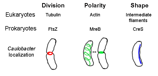 Illustration of proteins in the prokaryotic cytoskeleton. Based on - Gitai, Z. (2005). "The New Bacterial Cell Biology: Moving Parts and Subcellular Architecture". Cell 120 (5): 577-586.